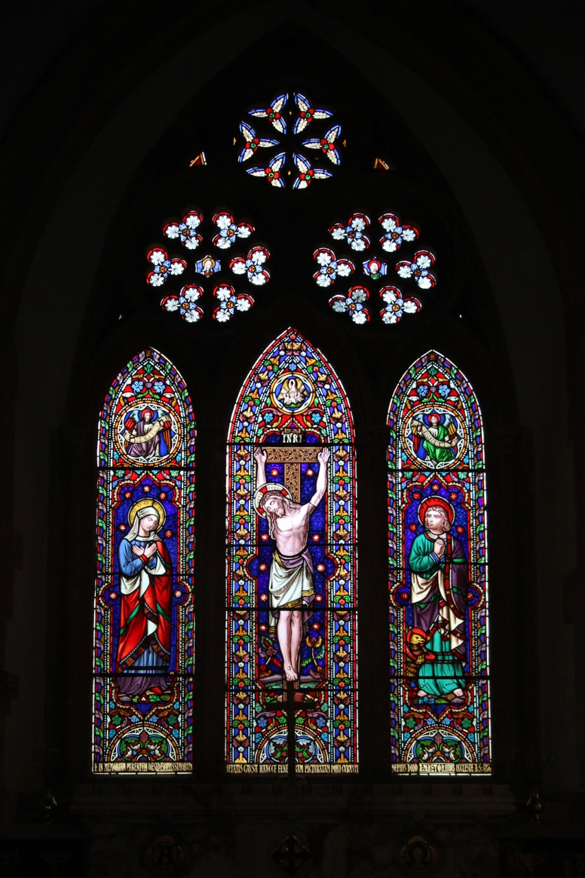 East window of the chancel of St Mary's parish church, Hampton Poyle, Oxfordshire